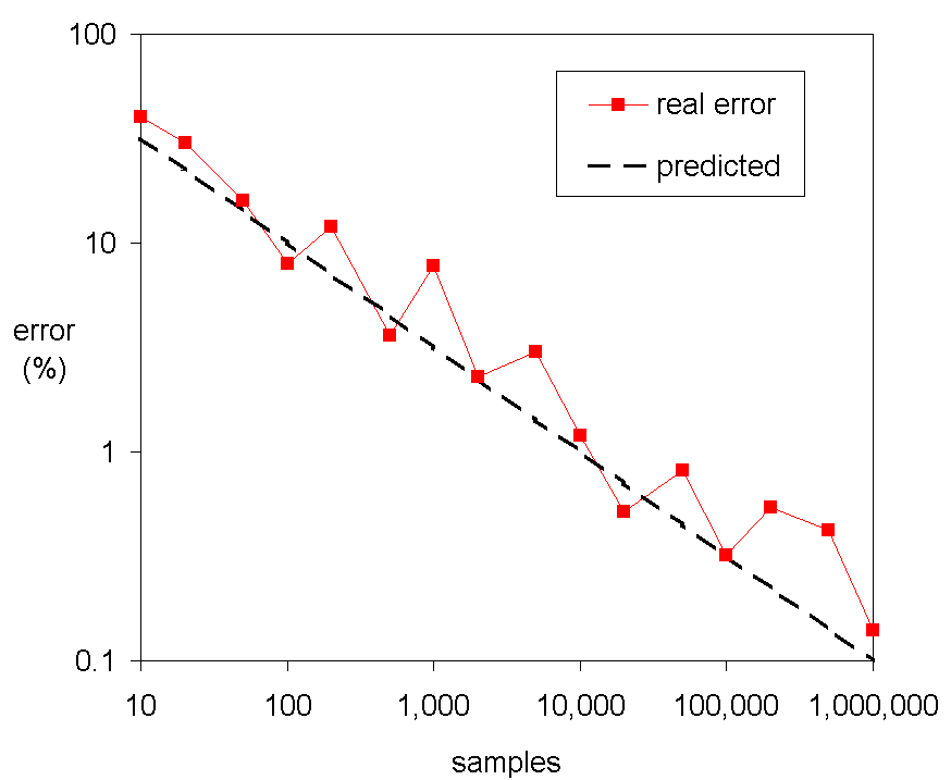 Errors in the Monte-Carlo method (red) can be reduced by square root of number of samples (black). Hence increasing the number of samples by a factor of 100 reduces the maximum error by a factor of 10. See also File:Monte-carlo2.gif